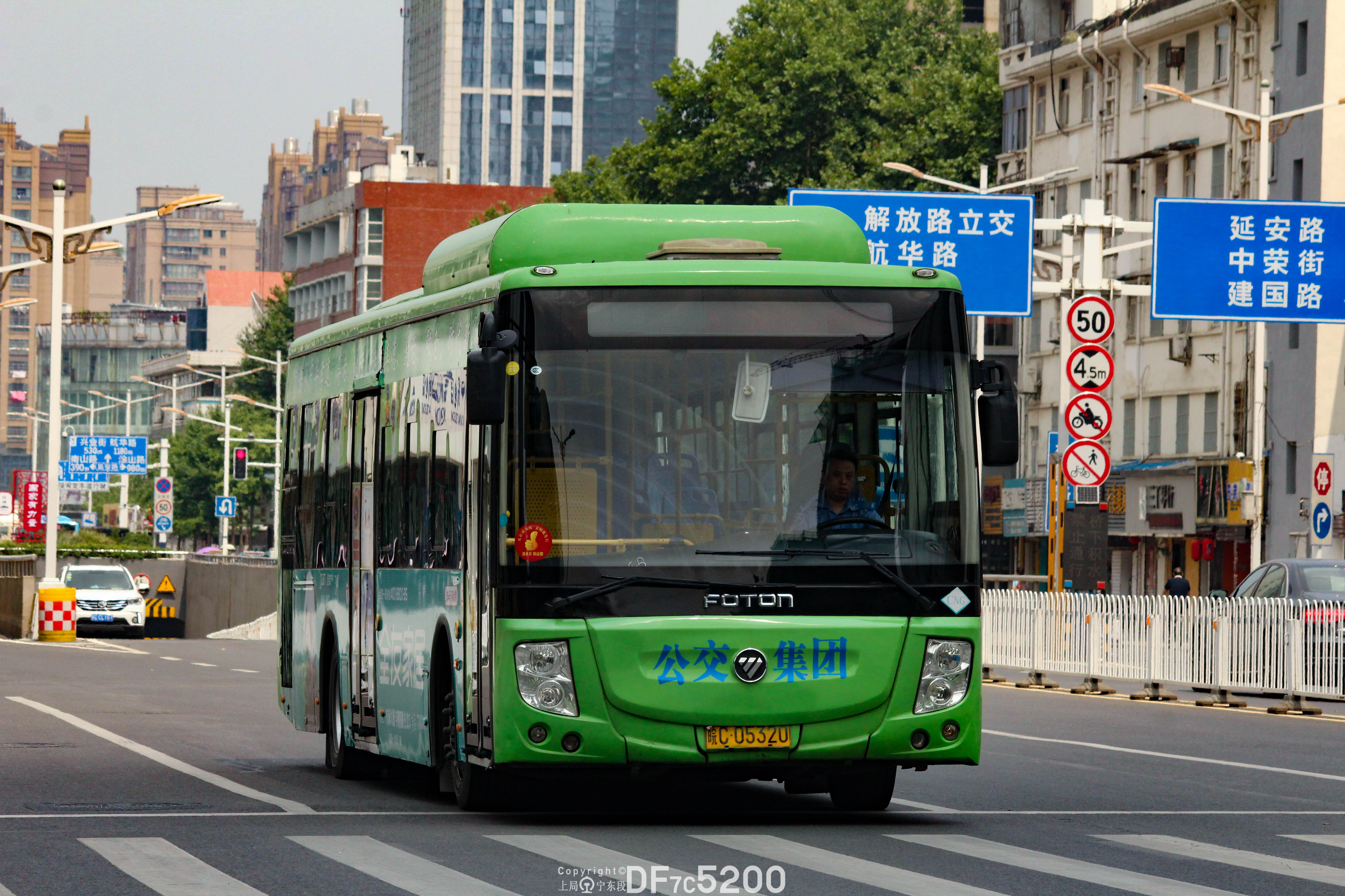 中文（中国大陆）: Bengbu Bus No.111 at 3rd.People's Hospital Sta.